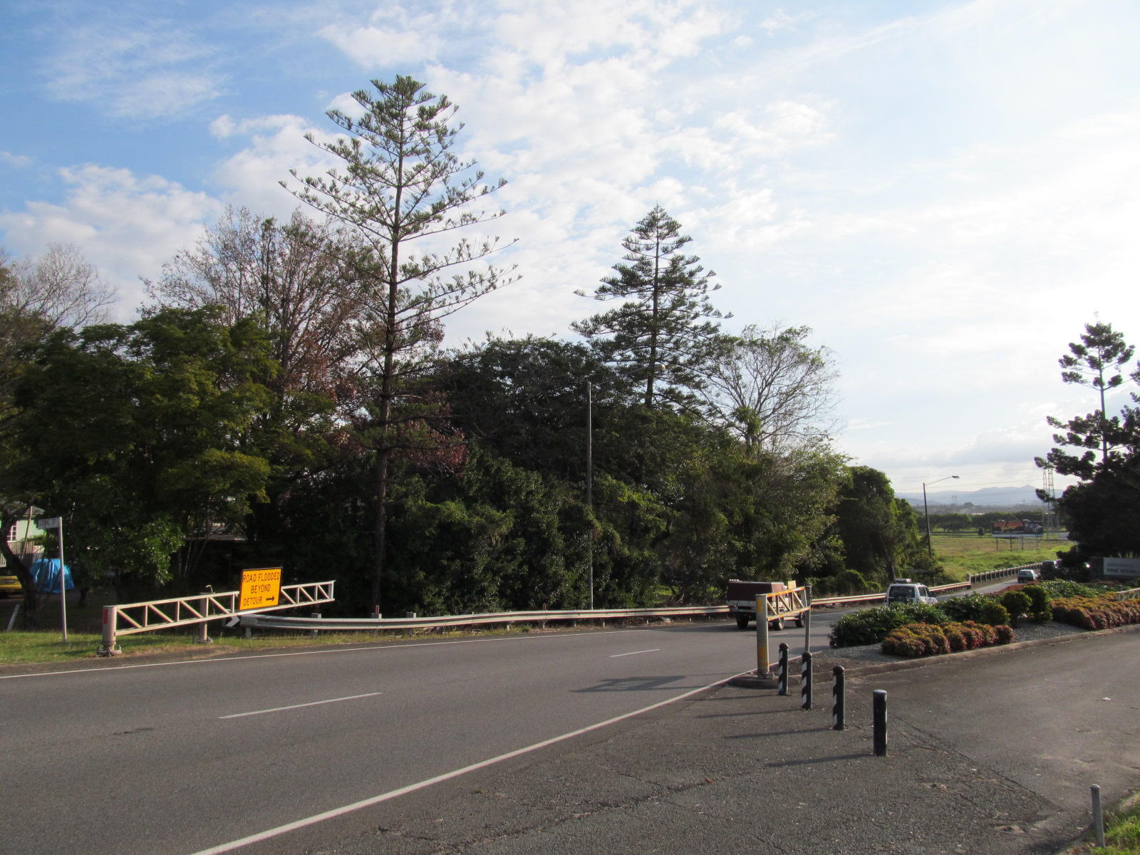 Flood gates on the westbound lanes of Gympie Road near the South Pine River leaving Bald Hills, Queensland